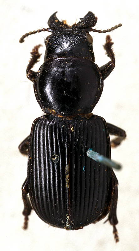 Idiomorphus guerini